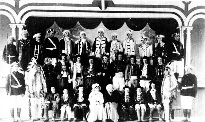 Le Drame du peuple acadien, a play by Jean-Baptiste Jégo presented in 1930 at the Sainte-Anne College.